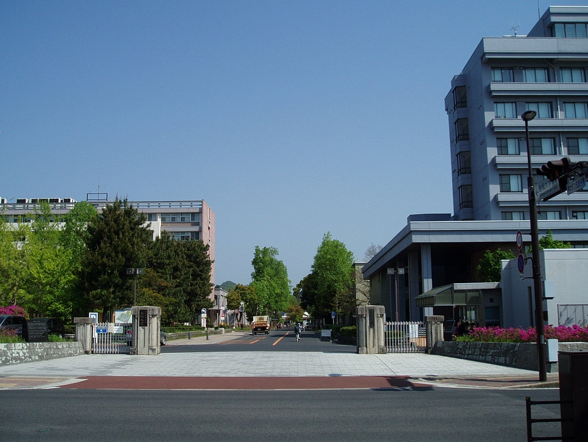 Main entrance to Matsue Campus, Shimane University, located in Matsue, Shimane, Japan.